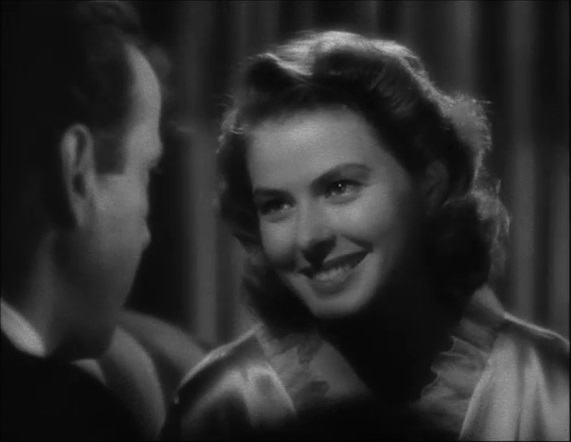 This screenshot shows Ingrid Bergman in a flashback scene with Humphrey Bogart.